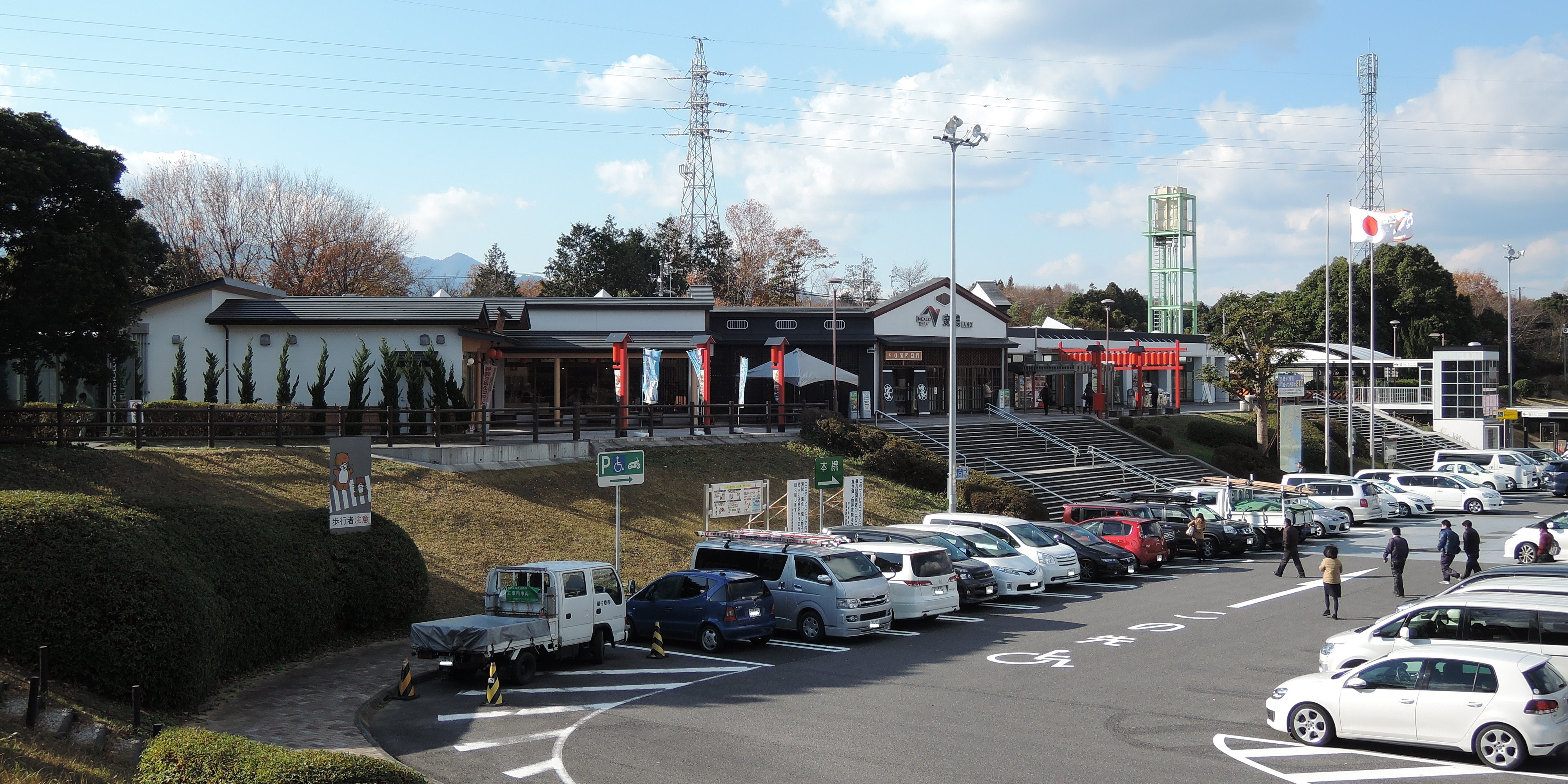 Ano Service Area on the Ise Expressway northbound line in Mie Prefecture, Japan